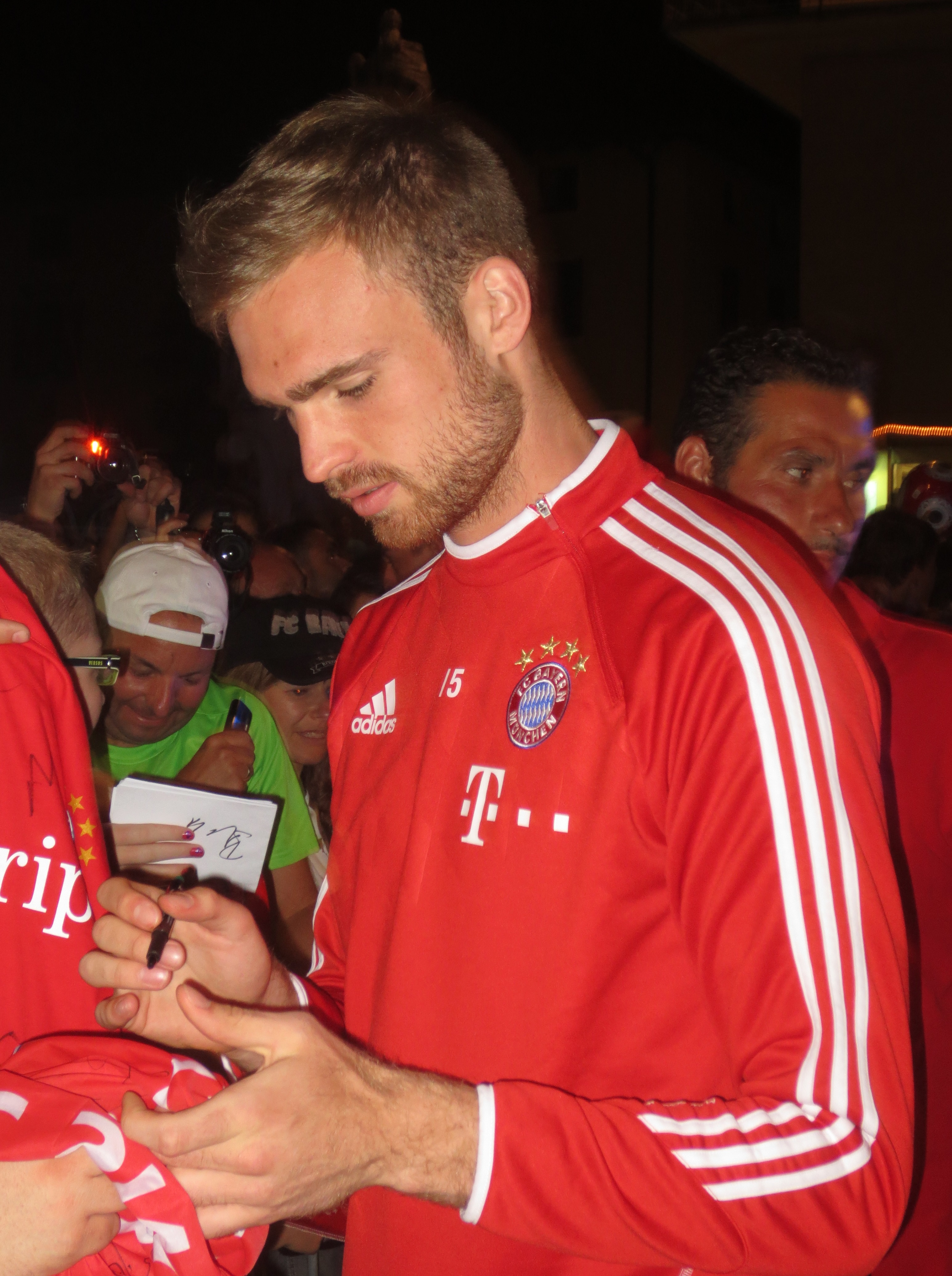 Jan Kirchhoff during the FC Bayern Munich training camp in Arco, Italy.